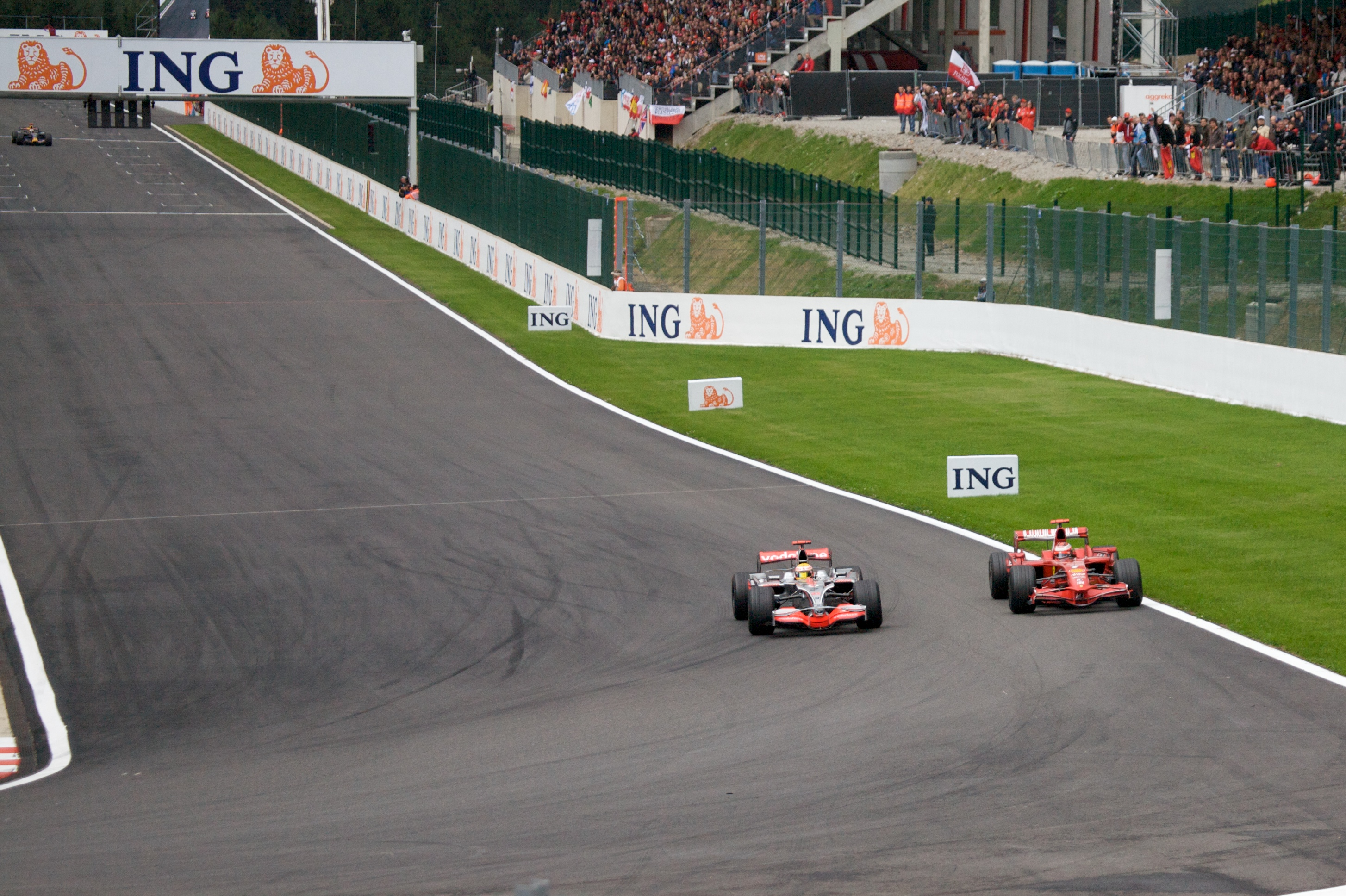 Lewis Hamilton (McLaren) controversially passes Kimi Räikkönen (Scuderia Ferrari) after cutting the previous corner. He was penalised 25 seconds after the race for gaining an illegal advantage, dropping him from first to third.